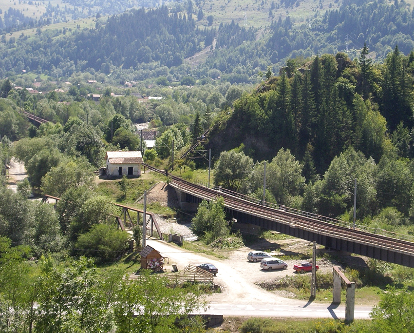 Ghimes-strait, Bacău County, Transylvania, Romania